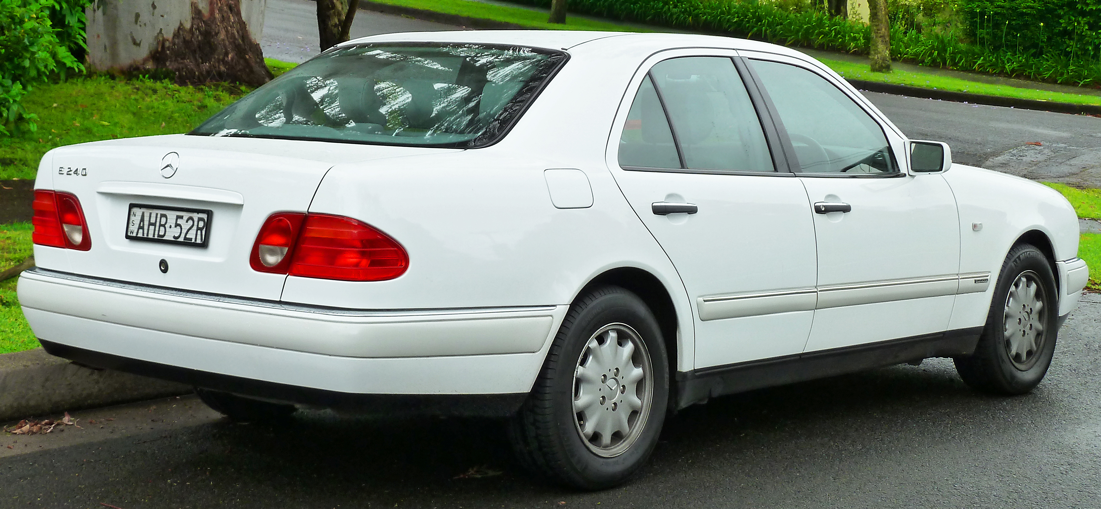 1999 Mercedes-Benz E 240 (W 210) Elegance sedan. Photographed in Roseville, New South Wales, Australia.